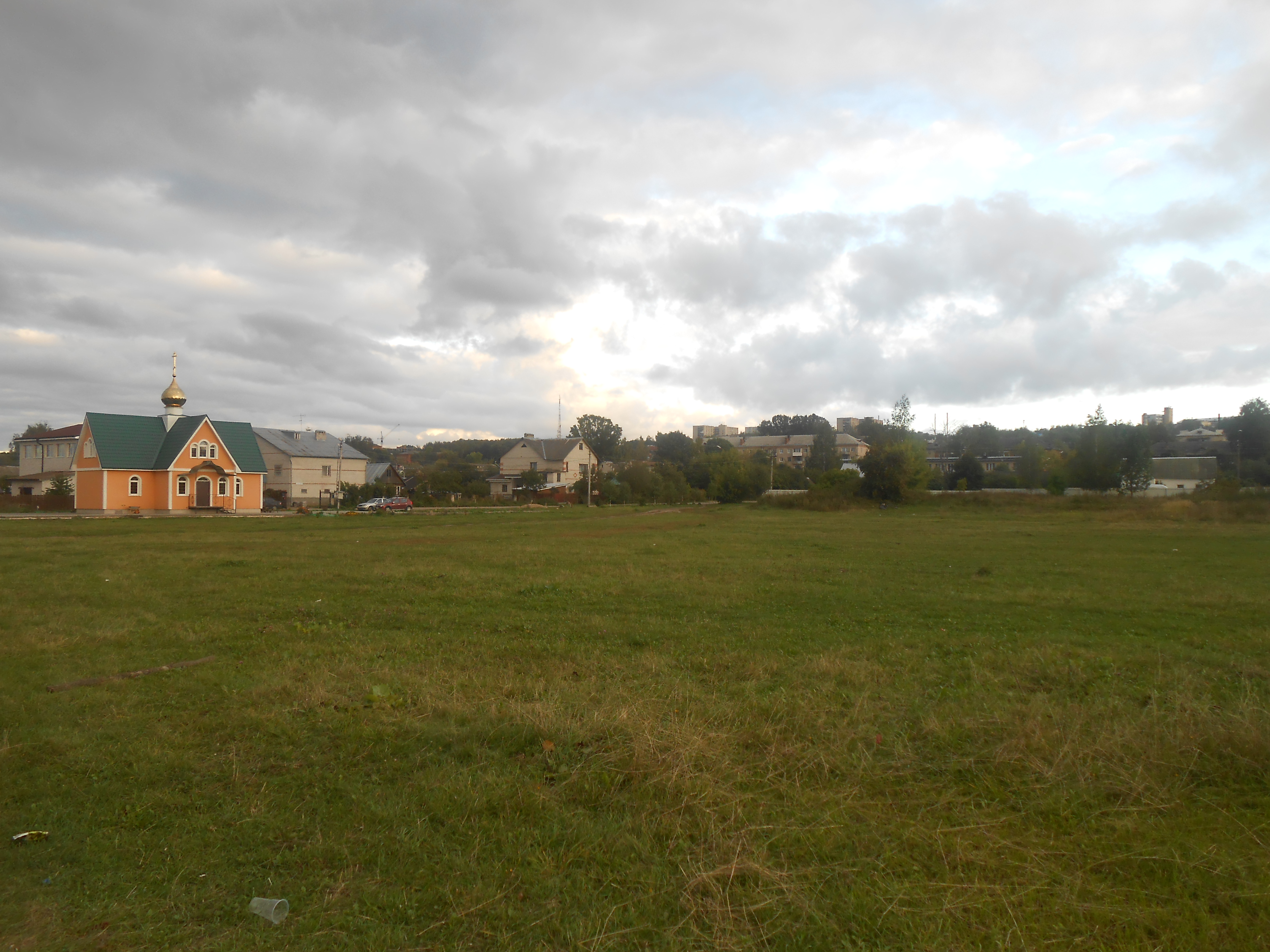 Saints Boris and Gleb Monastery on Smyadin